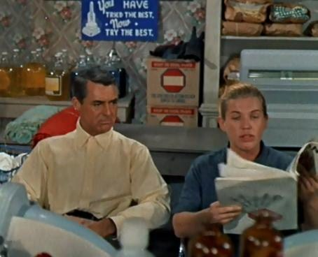 Cary Grant & Kathleen Freeman in Houseboat - trailer (cropped screenshot)